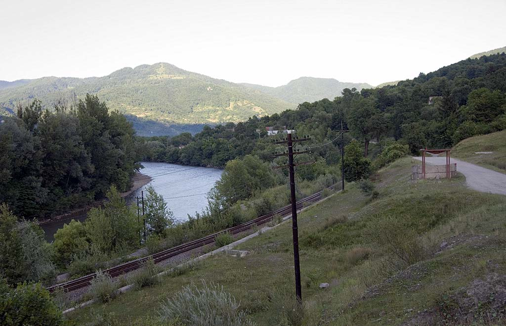 Road to Lunca la Tisa